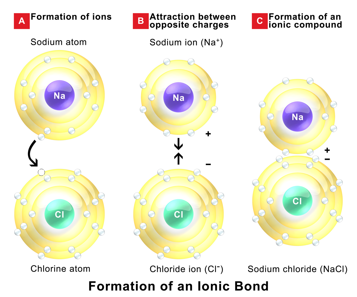 Ionic Bonds. See a full animation of this medical topic.